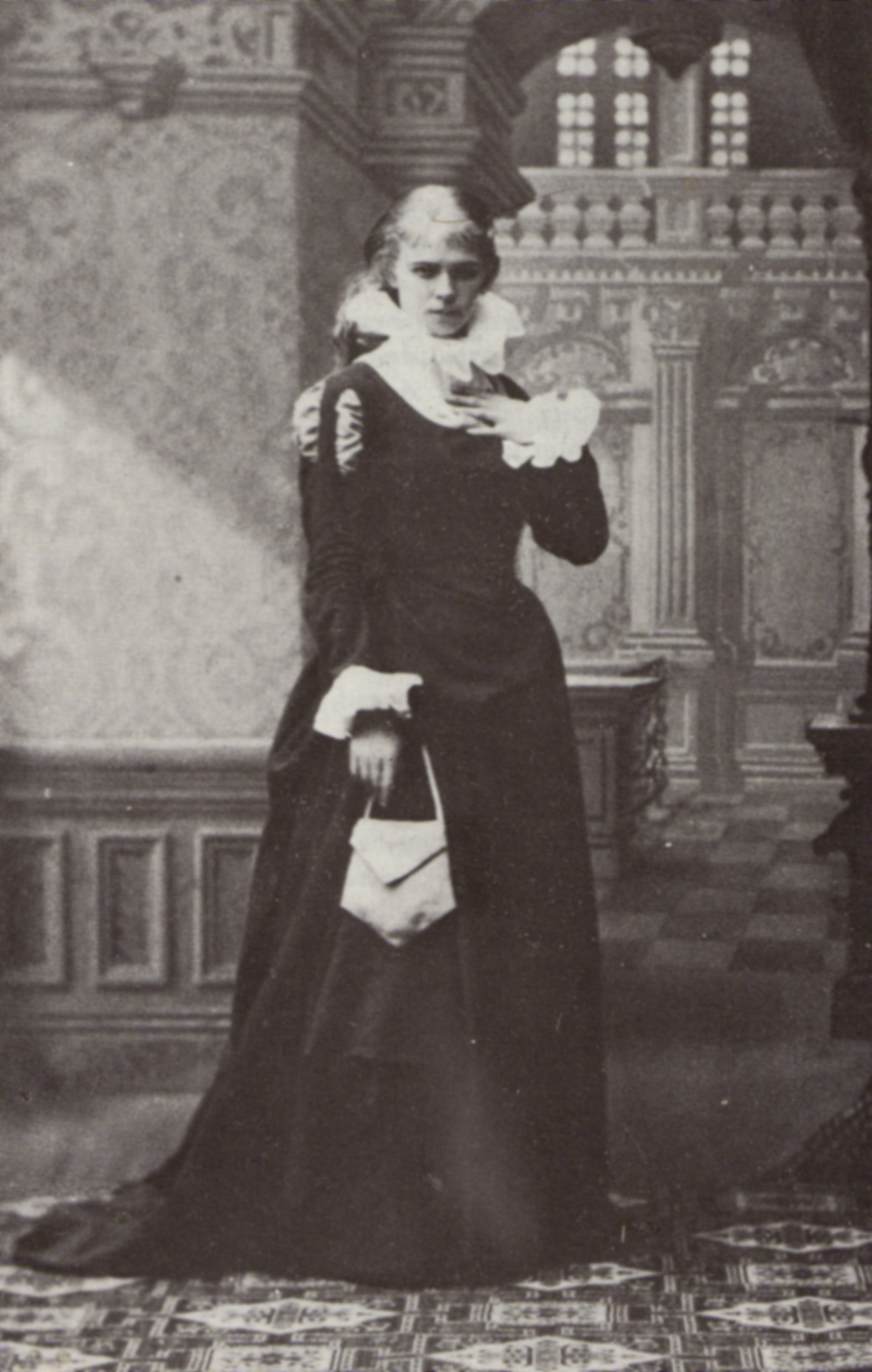 Stage portrait of actress Siri von Essen (1850-1912) as Margit in August Strindberg's play Sir Bengt's Wife (Herr Bengts hustru) in 1882 at the New Theatre in Stockholm.